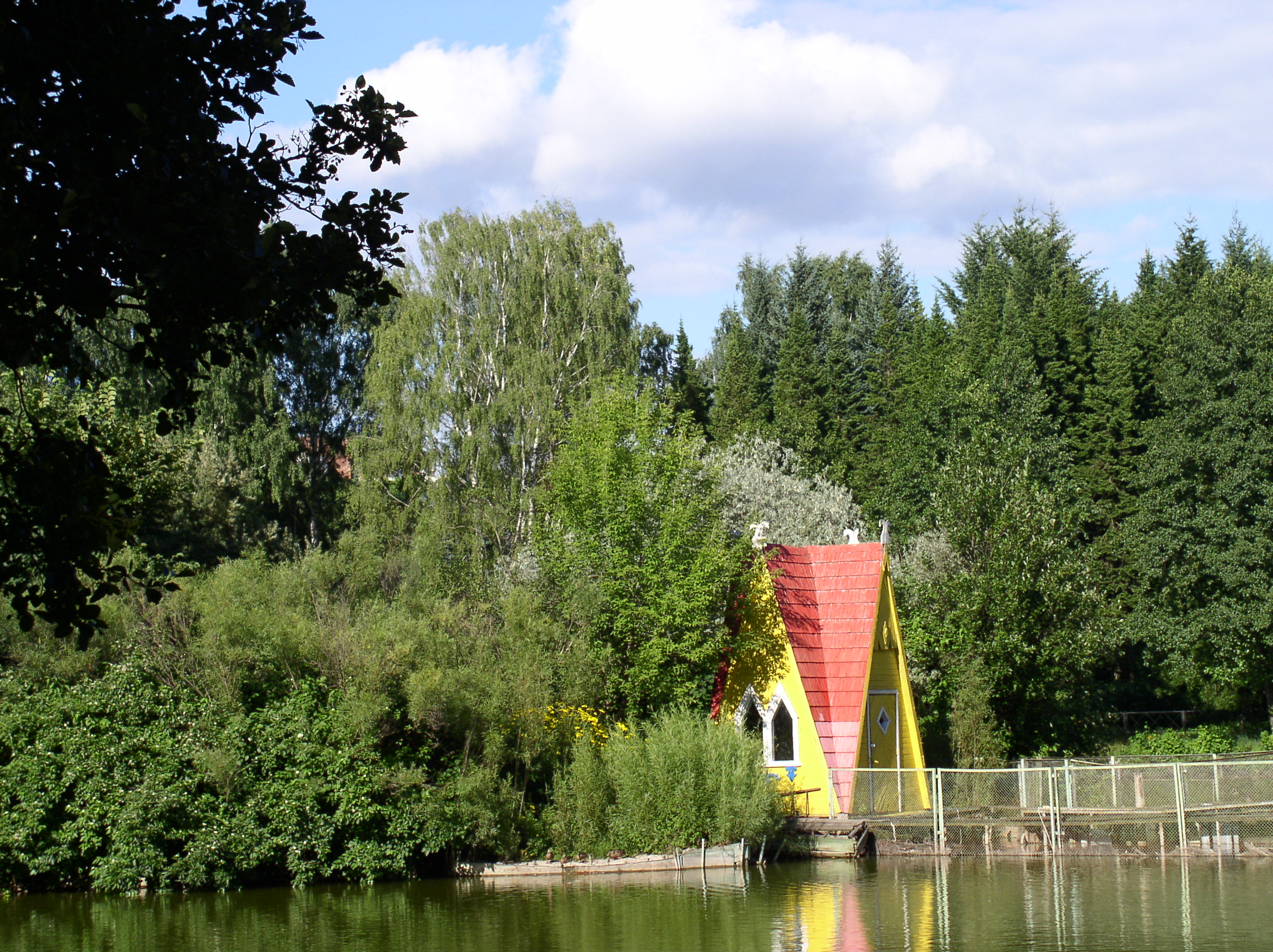 Swan house in botanical garden. Minsk, Belarus.